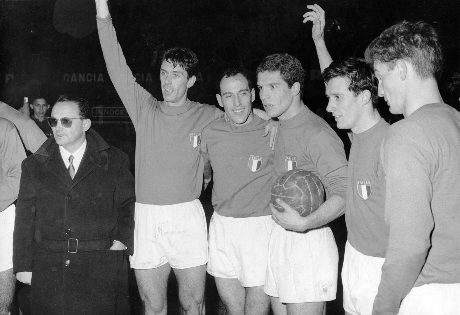 Group photograph of players of the Italian national association football team in Bologna before a match against Turkey. From left to right the coach Edmondo Fabbri; Cesare Maldini (AC Milan); Ezio Pascutti (Bologna FC); Alberto Orlando (AS Roma); Romano Fogli (Bologna FC) and Angelo Benedicto Sormani (Mantova FC). Italy won the match 6-0.